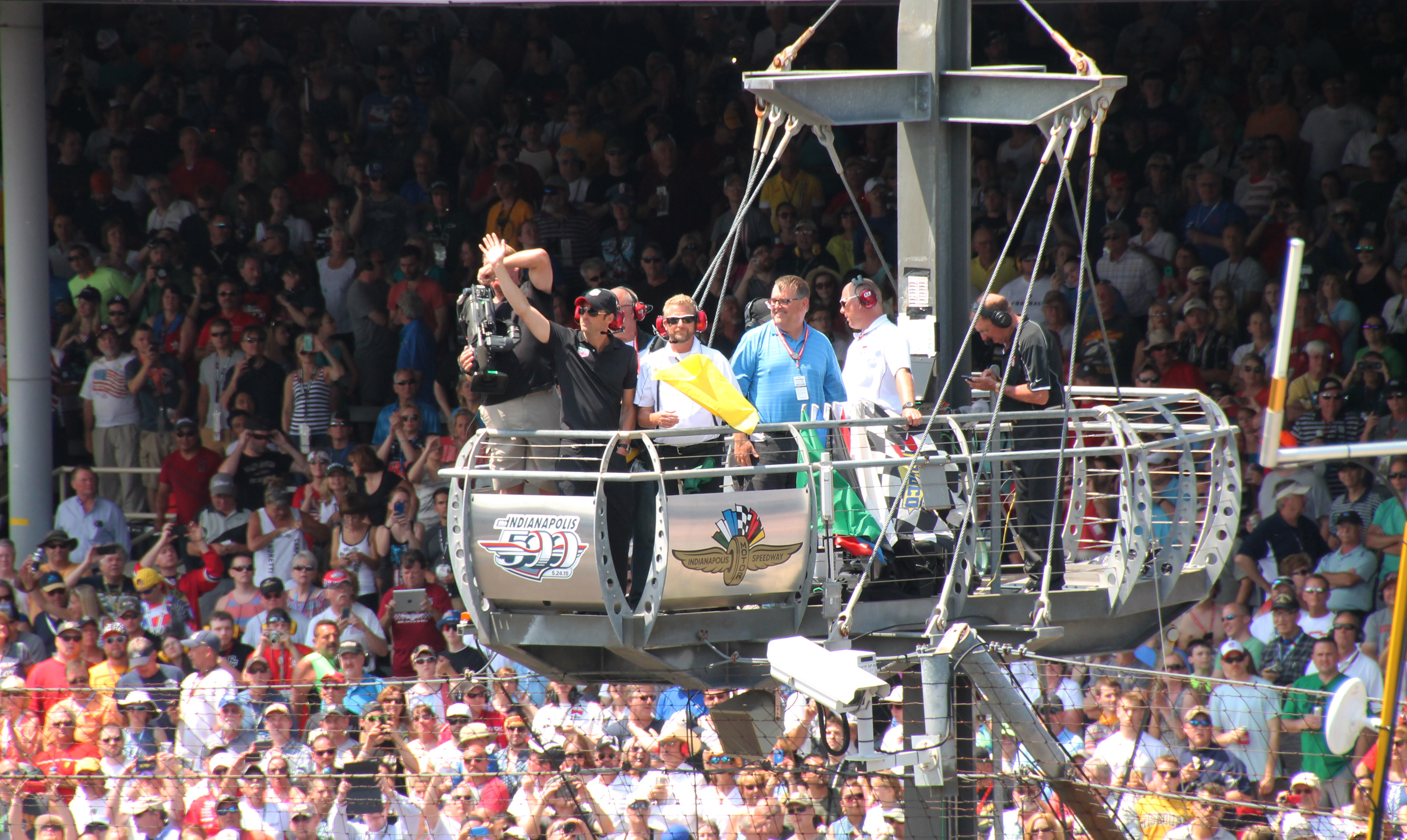 Patrick Dempsey serves as the honorary starter at the 2015 Indianapolis 500